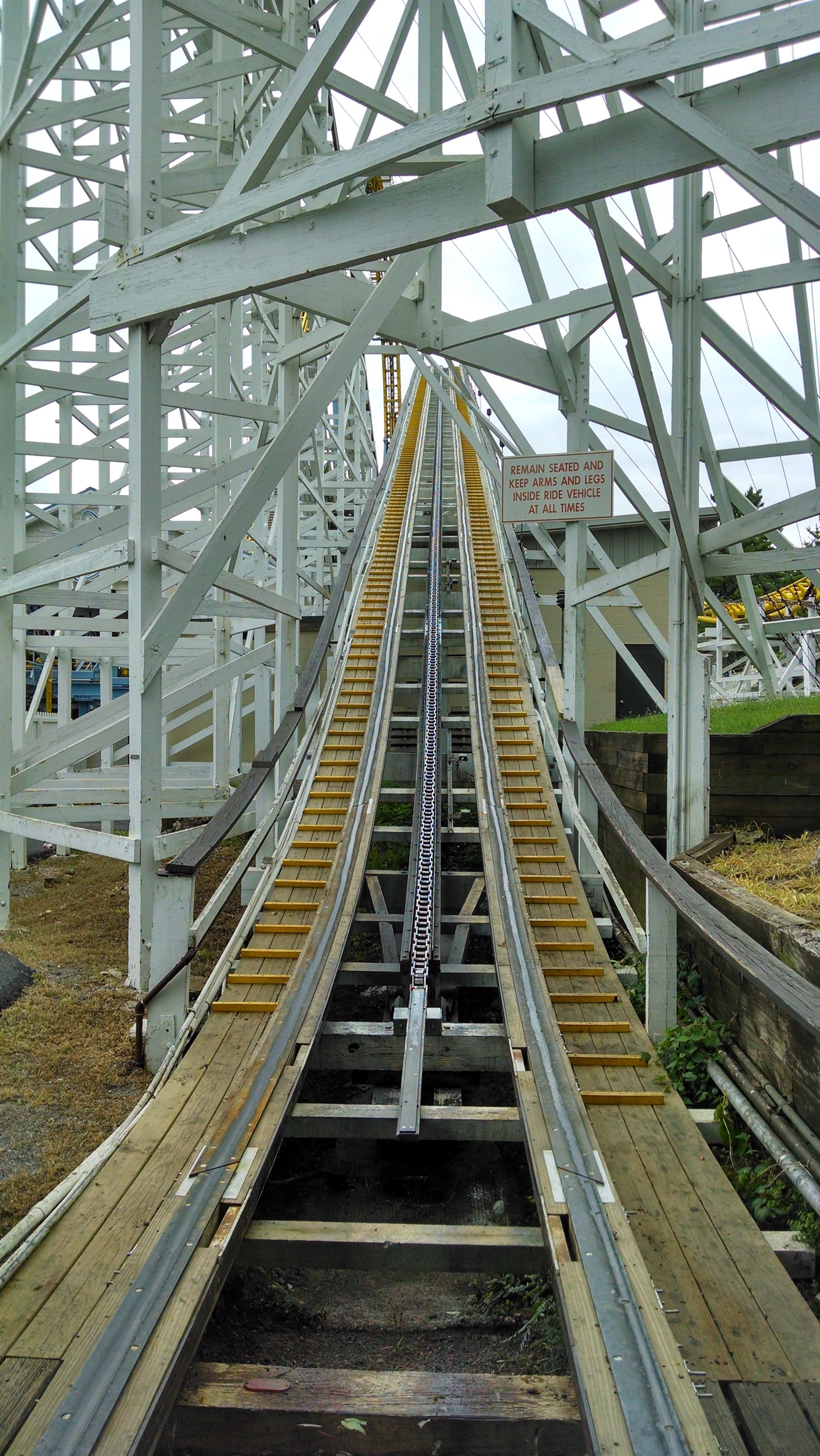 Your first view of the Comet as you wait to begin the ride.